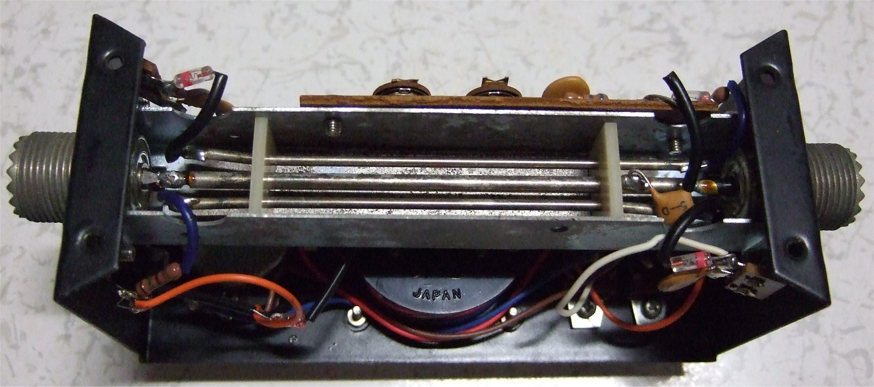 An SWR & power meter (inner view).